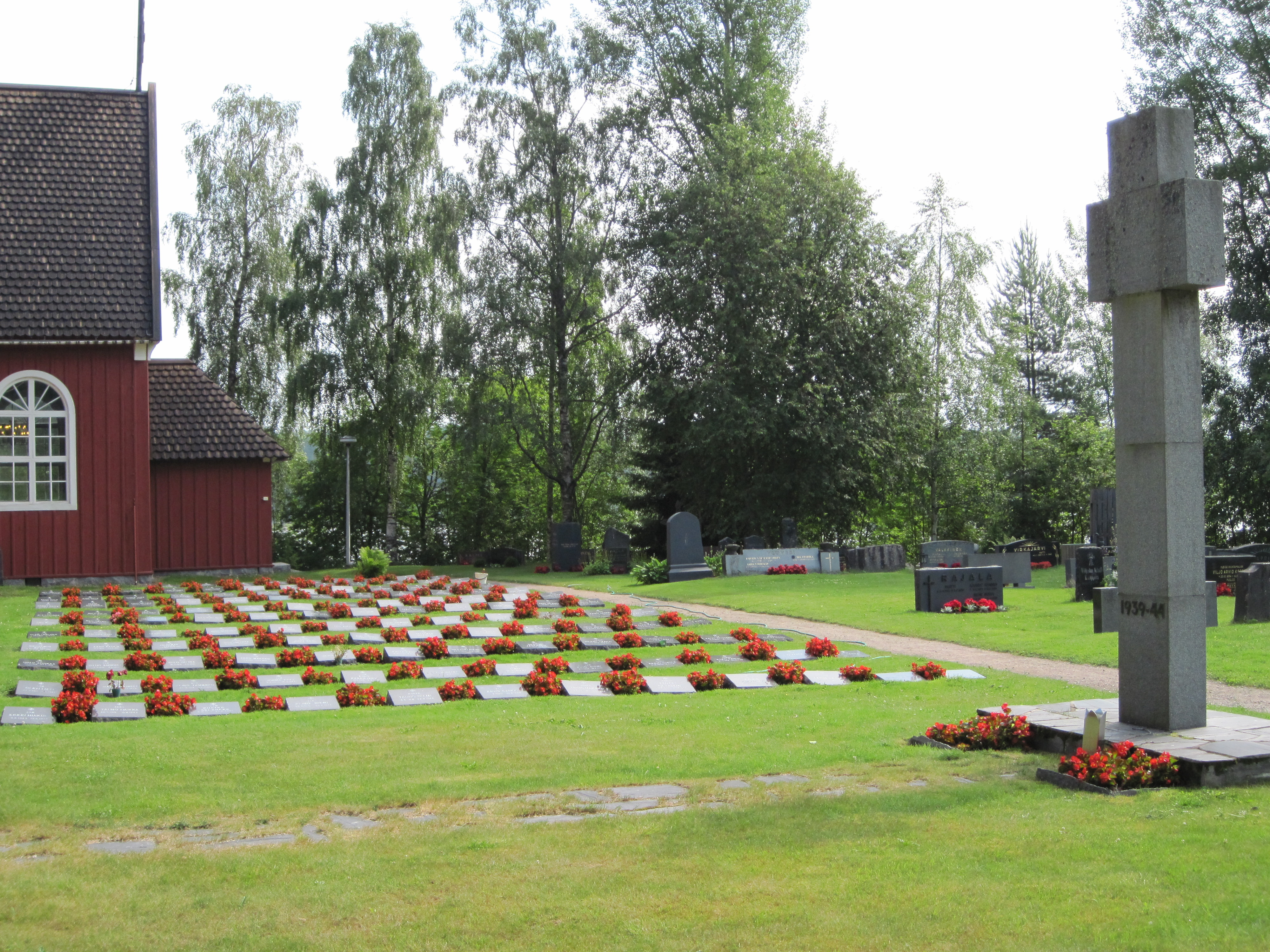 Military cemetary at church in Kuorevesi, Finland